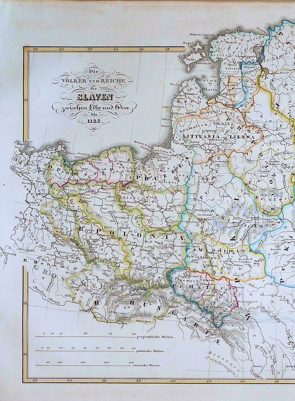 Map shows Kingdom of Poland (R. Poloniae) around 1125 - dark green borders - with its provinces: Greater Poland and Lesser Poland (yellow borders), Silesia, Masovia, Pomerania (with Gdańsk Pomerania - M: Gdansk).